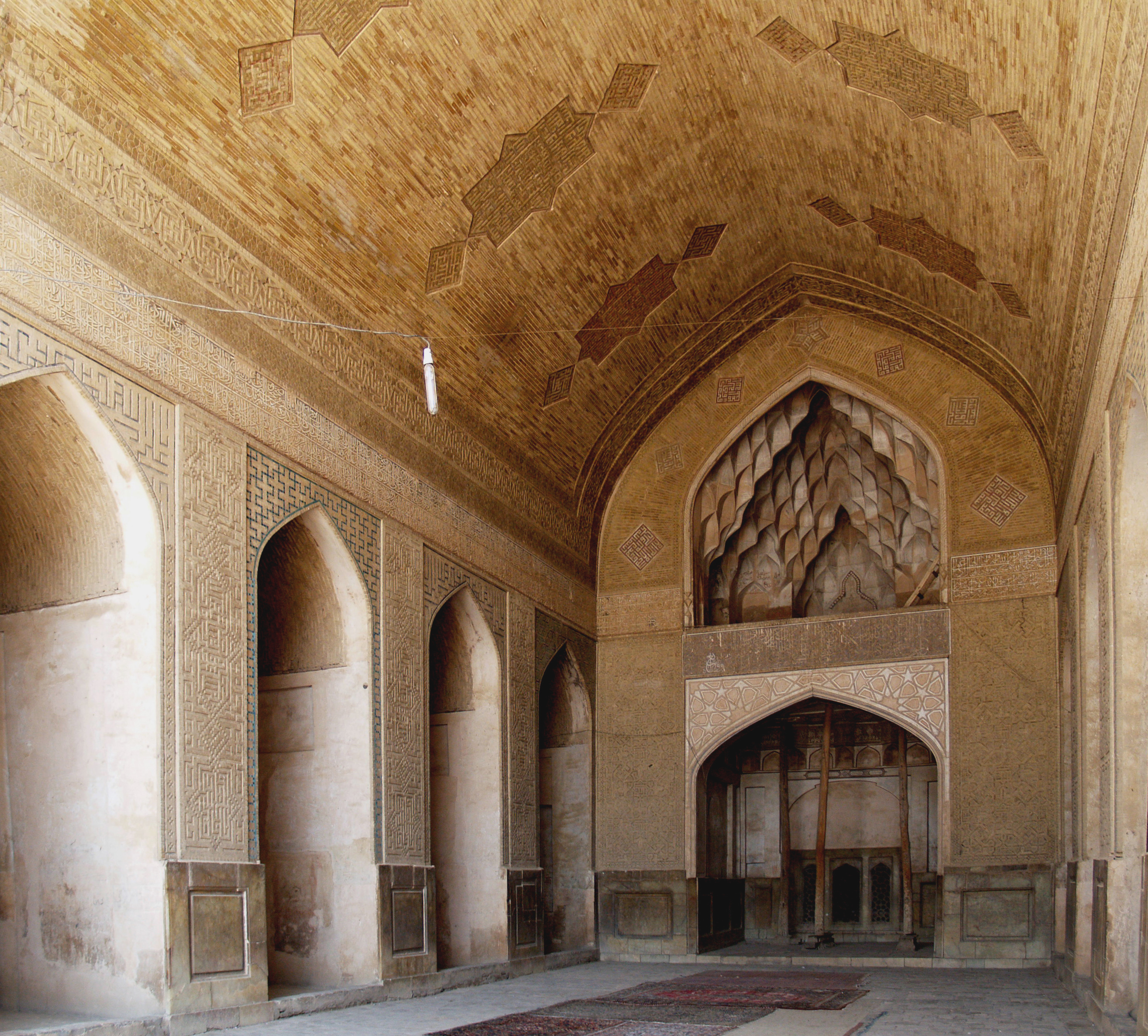 Seljuk Architecture of Jameh Mosque of Isfahan